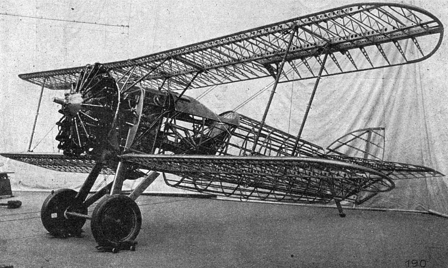 Letov Š-31 structure photo from L'Aérophile December,1929